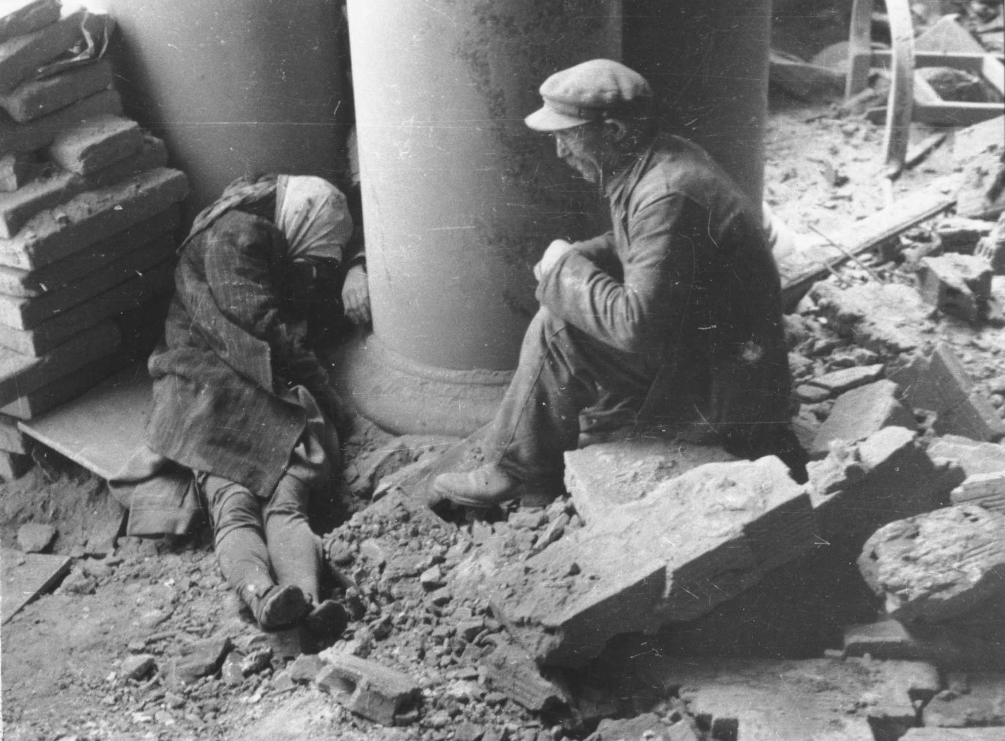 WarsawUprising: After air raid a man is sitting beside dead woman at the entry to "Adria" at 10 Moniuszki St.